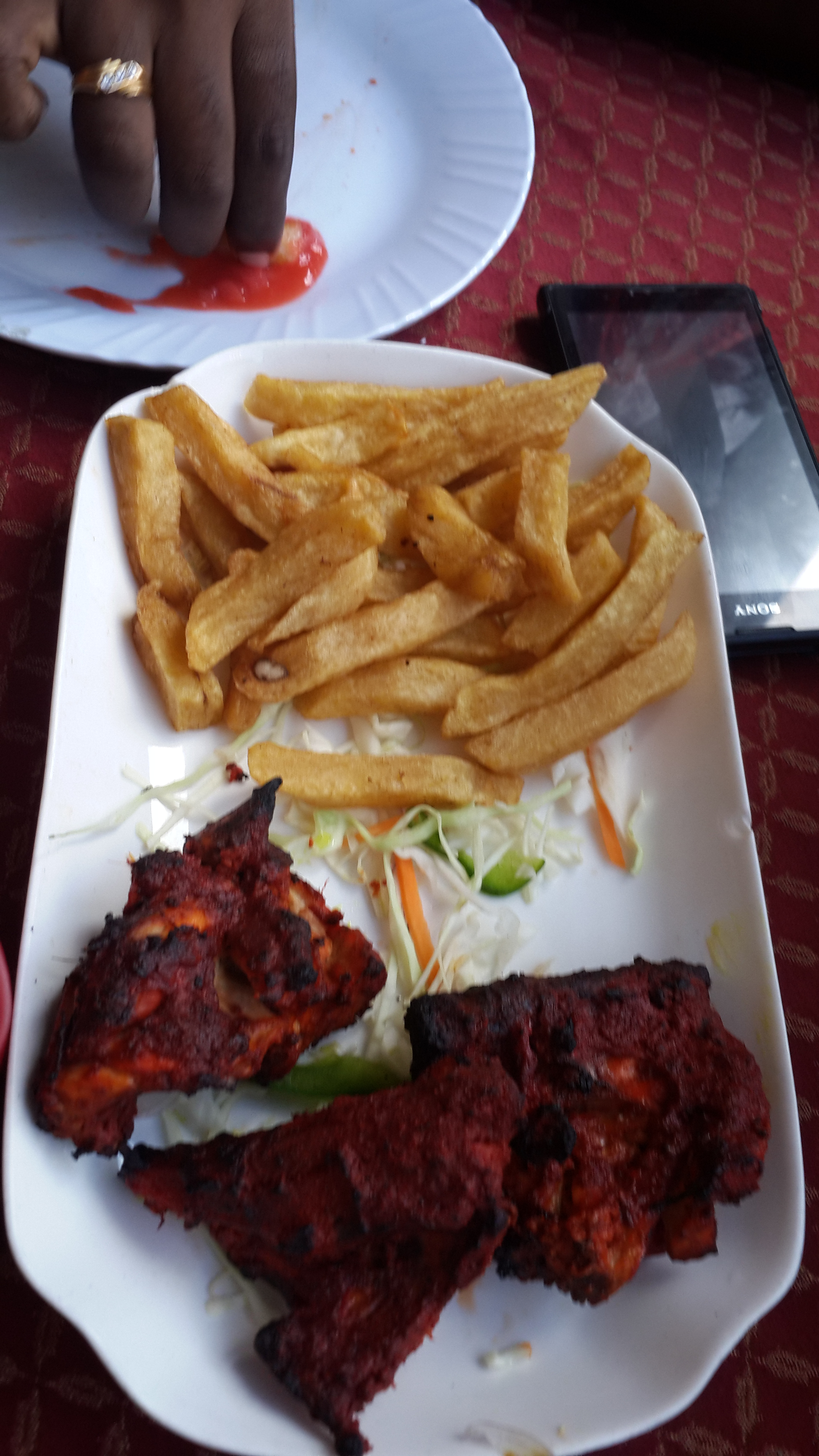 Chilly Chicken and Chips